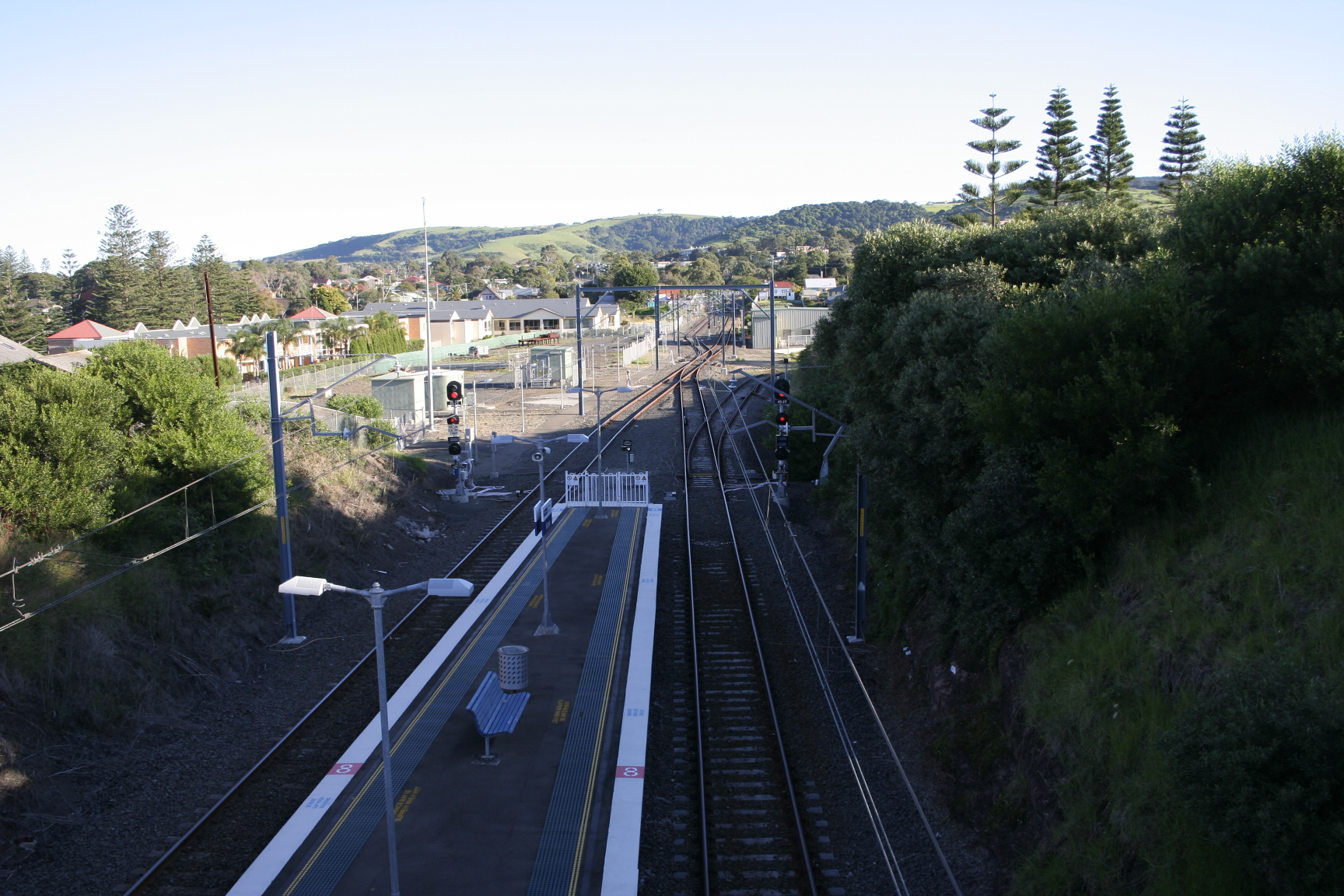 Kiama station looking south